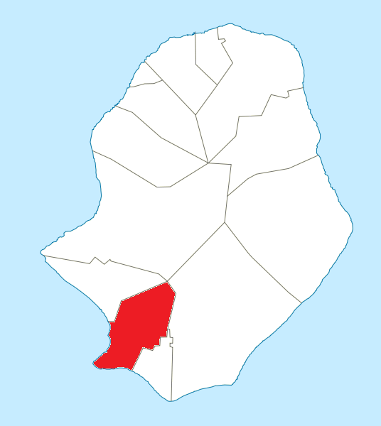 Location map for Avatele, Niue. Based on file:Niue location map.svg.